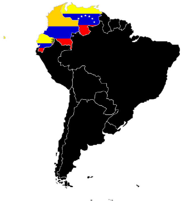 flags of the South American states Ecuador, Colombia and Venezuela